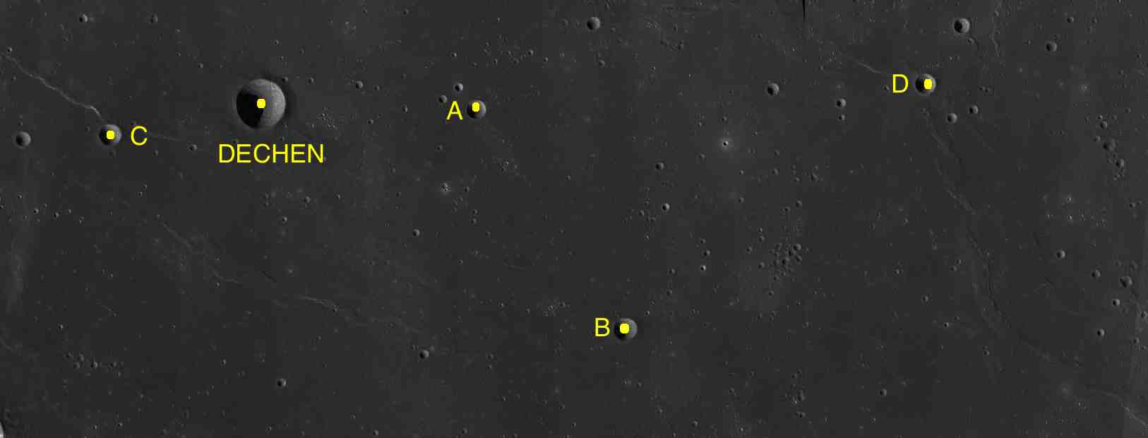 Parts of the charts LAC-22, LAC-23 used for the presentation